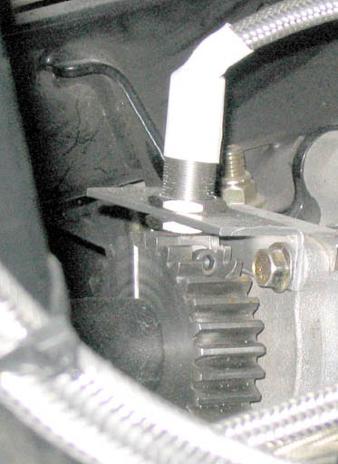 Hall-effect sensor with quadrature output, sensing a gear on the driveshaft of a robot vehicle. (Team Overbot, 2005 DARPA Grand Challenge). URL: by John Nagle (Cropped version of Image:Odometergear10med.jpg)